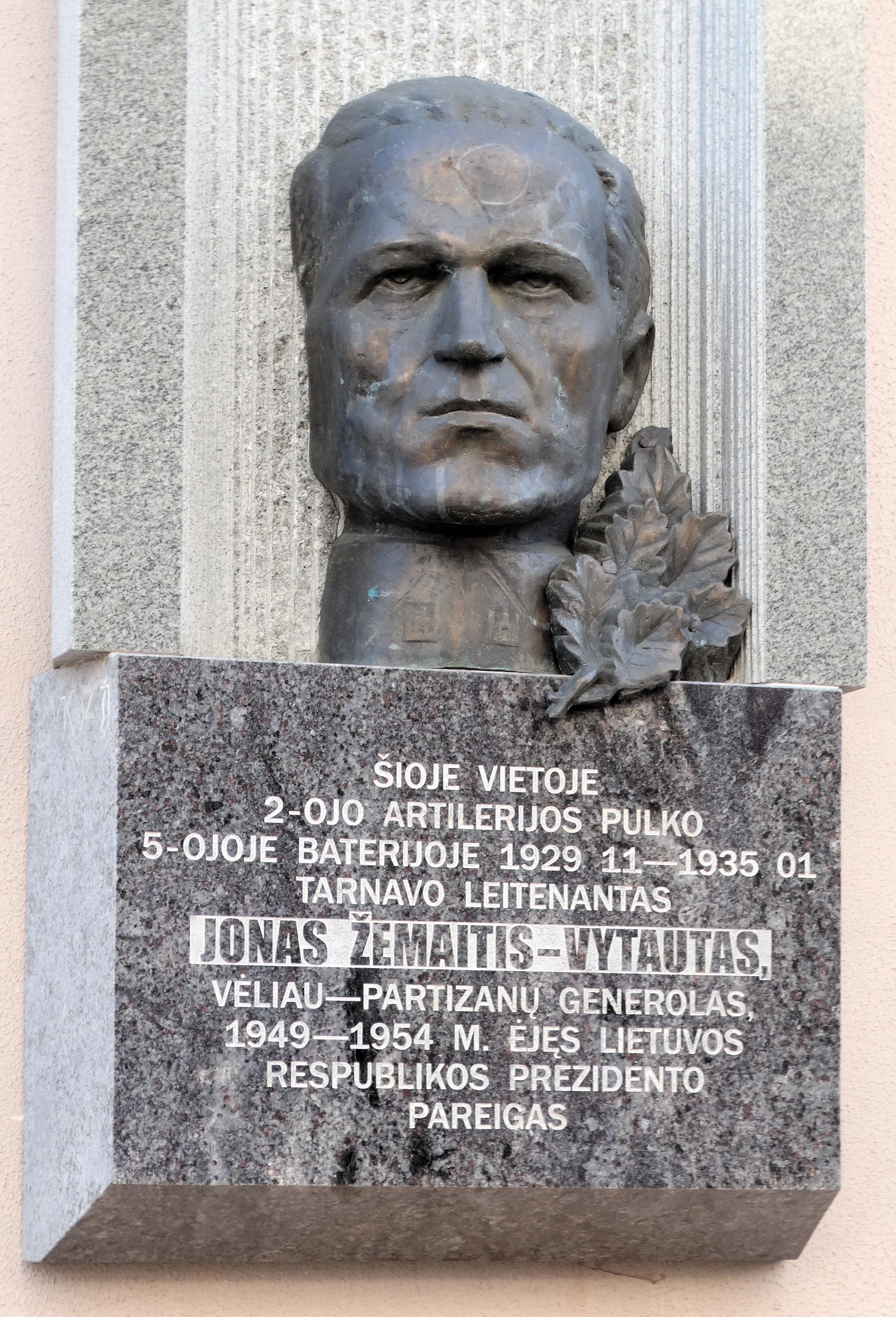 Jonas Žemaitis-Vytautas, Kėdainiai, Lithuania